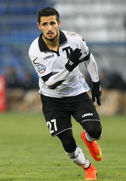 Hugo Vieira playing for FC Torpedo Moscow.